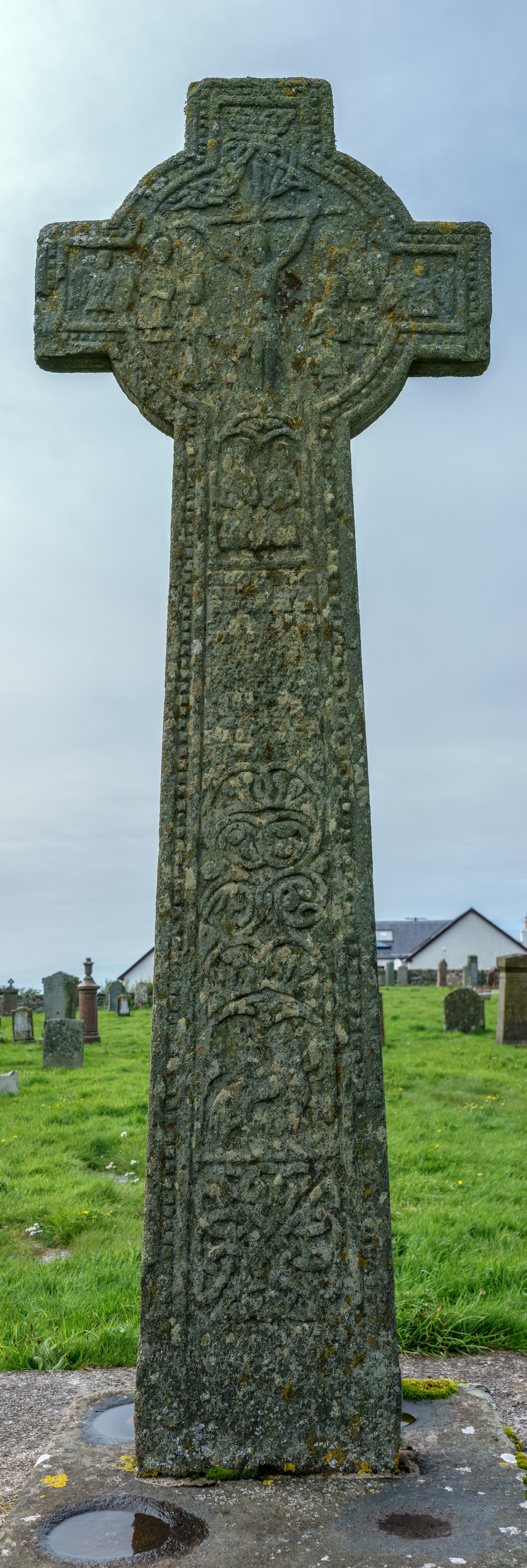 Kilchoman Cross is a high cross, 2.57m tall, 0.97m wide in the grounds of the Old Parish Church, Kilchoman, Islay. The front has a figure of Christ crucified along with saints and angels. The rear has mainly geometric designs. The design is of the Iona School, 14th-I5th century. Details found at entry (13) at Wikidata has entry Q1741245 with data related to this item.